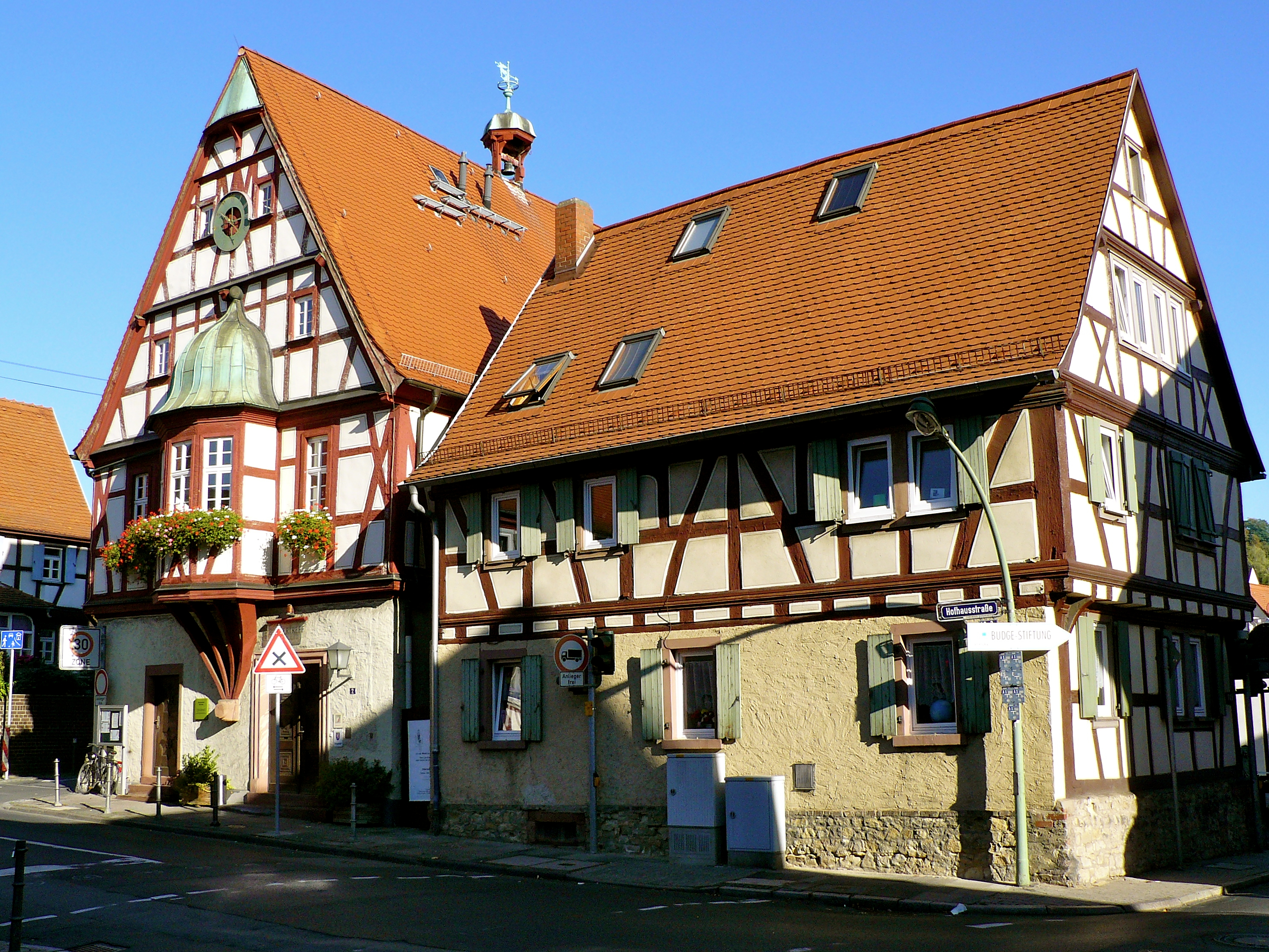 Former town hall of Seckbach, Frankfurt, Hesse, Germany